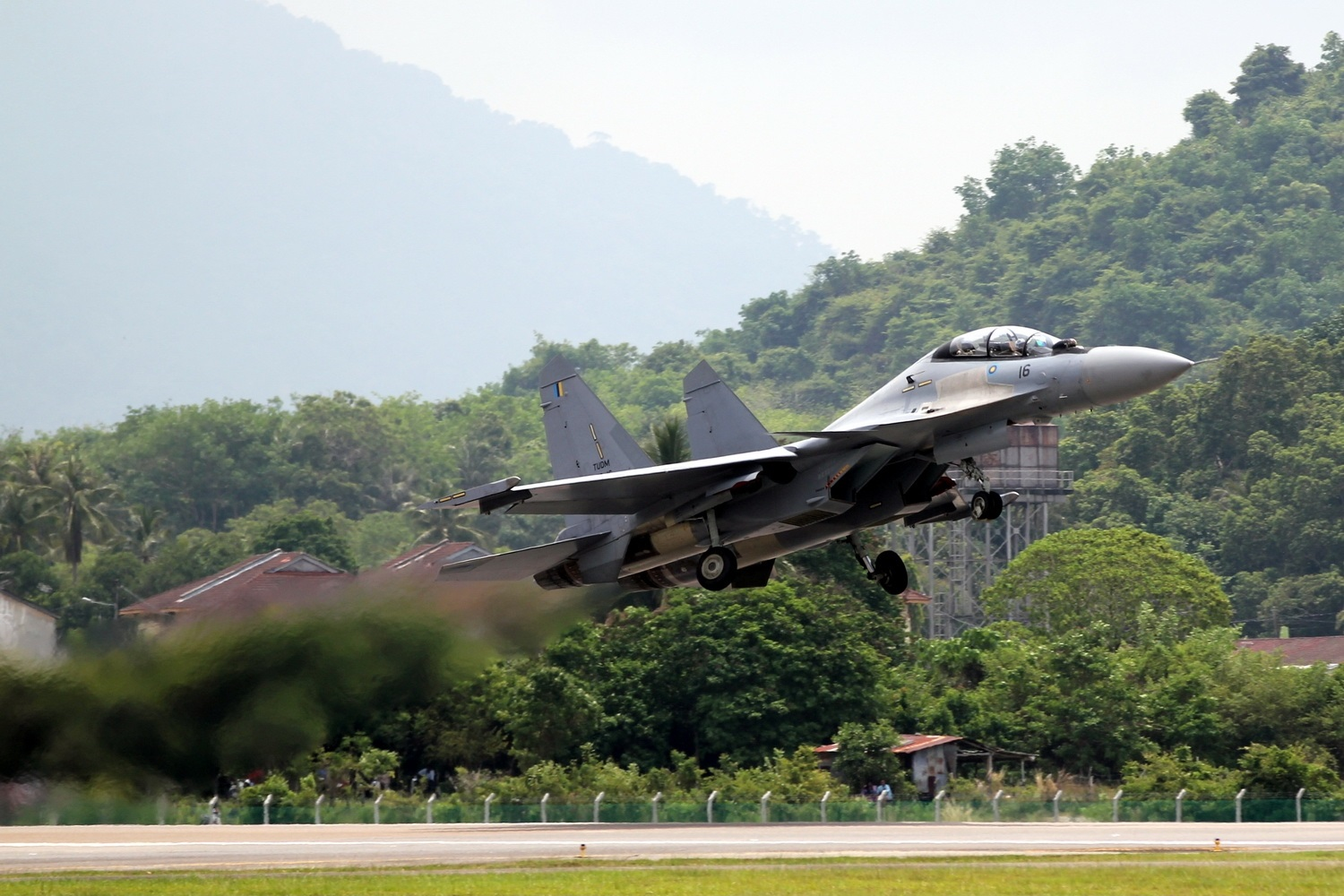 Su30mkm flying at lima 6